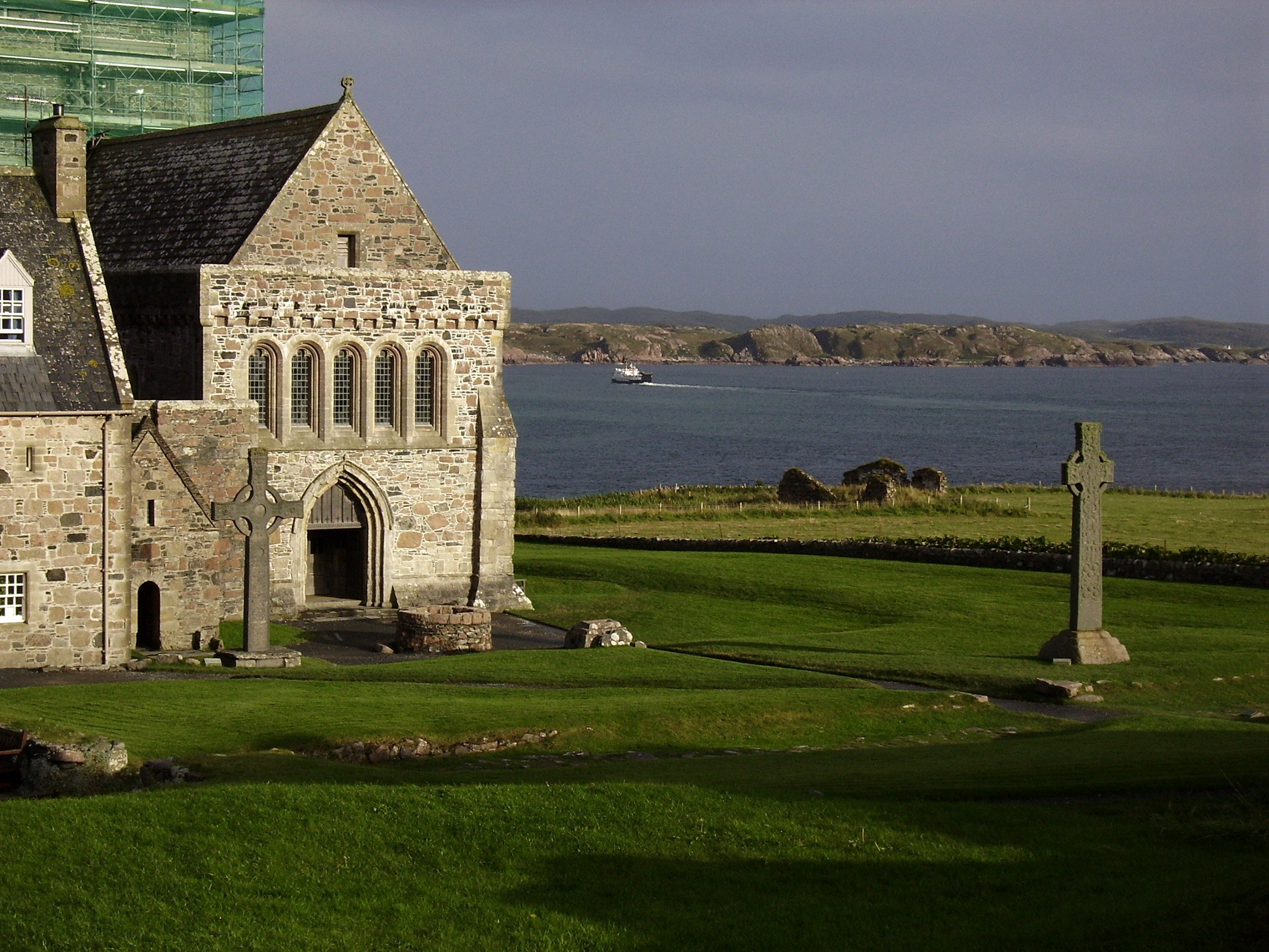 St John's and St Martin's crosses, standing outside the entrance to Iona Abbey on the Isle of Iona, Scotland